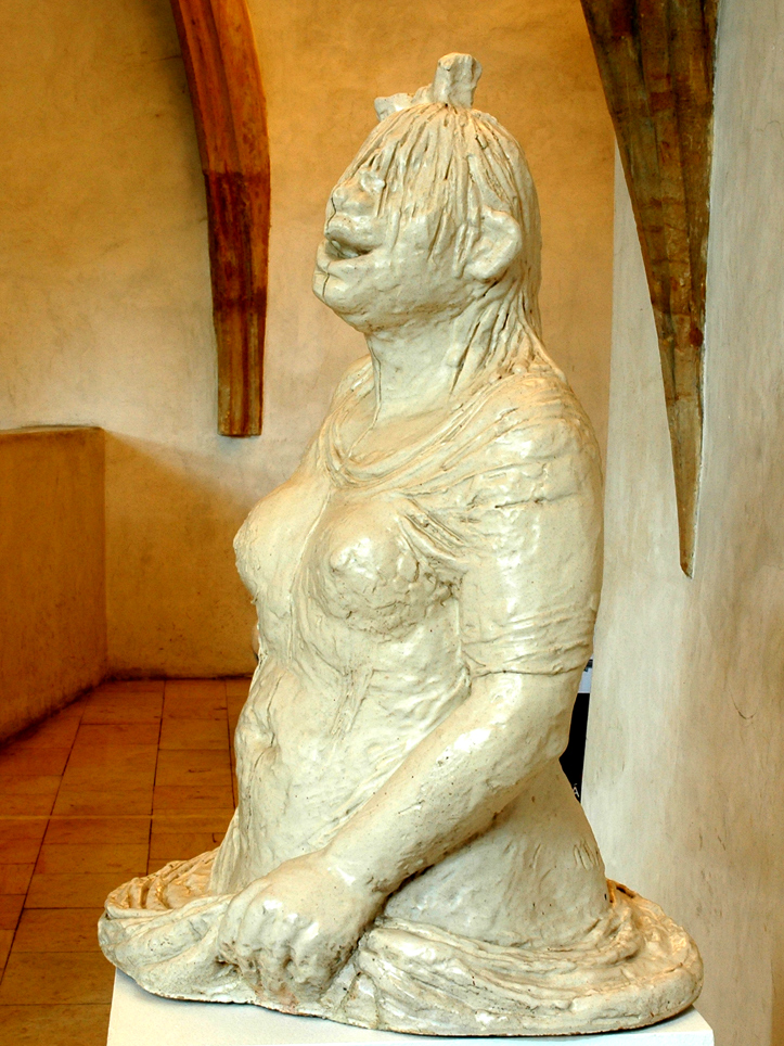 Sculpture Wet Julia (1974), glazed burnt clay, author: Bohumil Zemánek